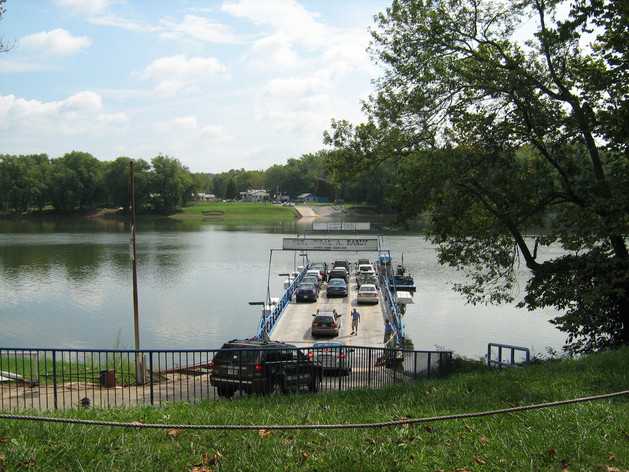 White's Ferry on the Potomac River. Loading vehicles on the Virginia side.